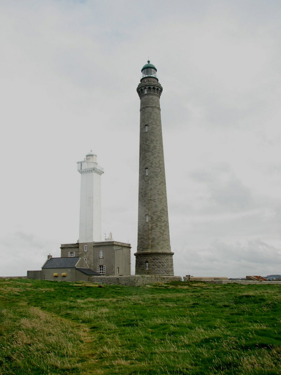 Ile Vierge Lighthouse, English Canal, Finistère, Brittany, France